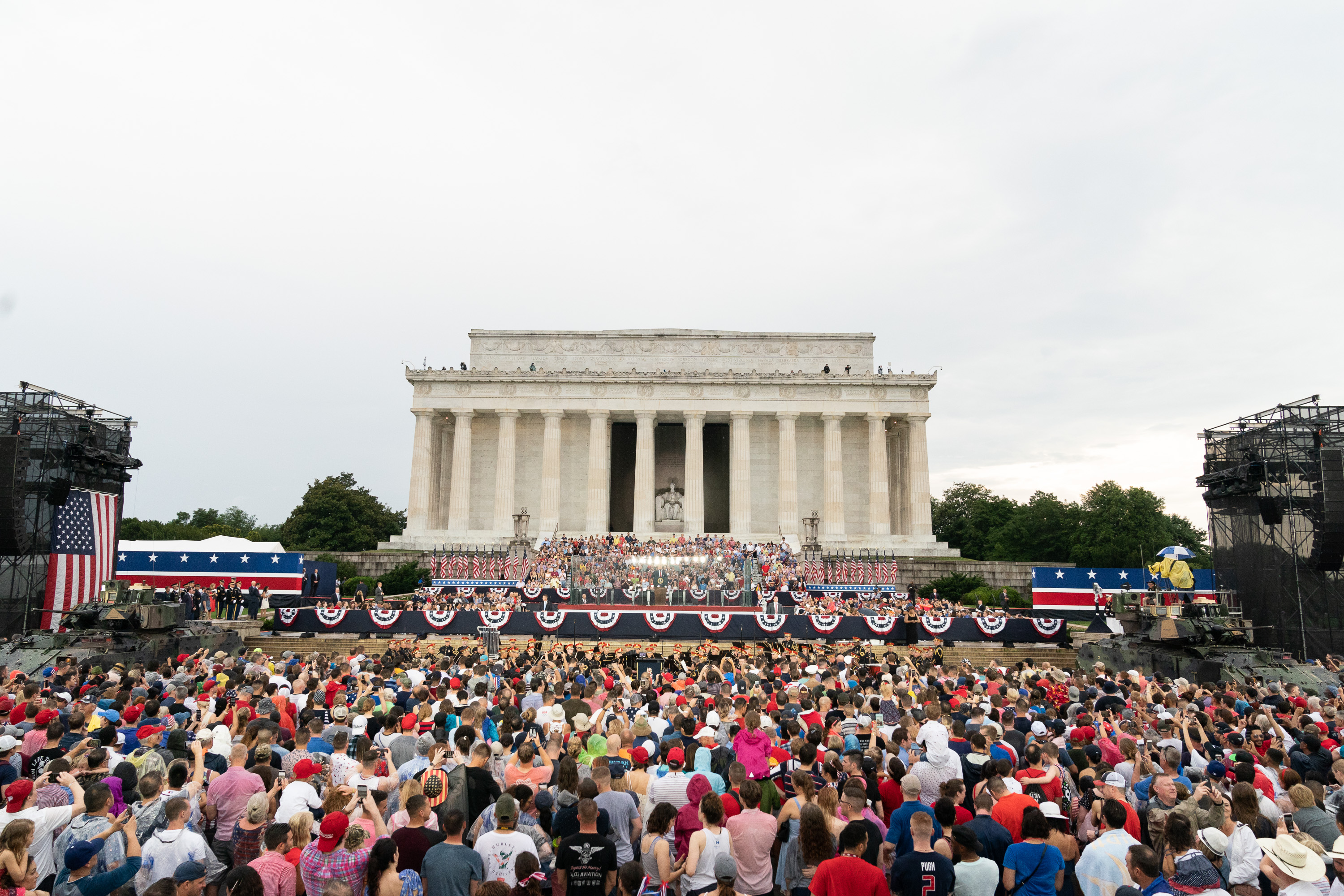 Salute to America